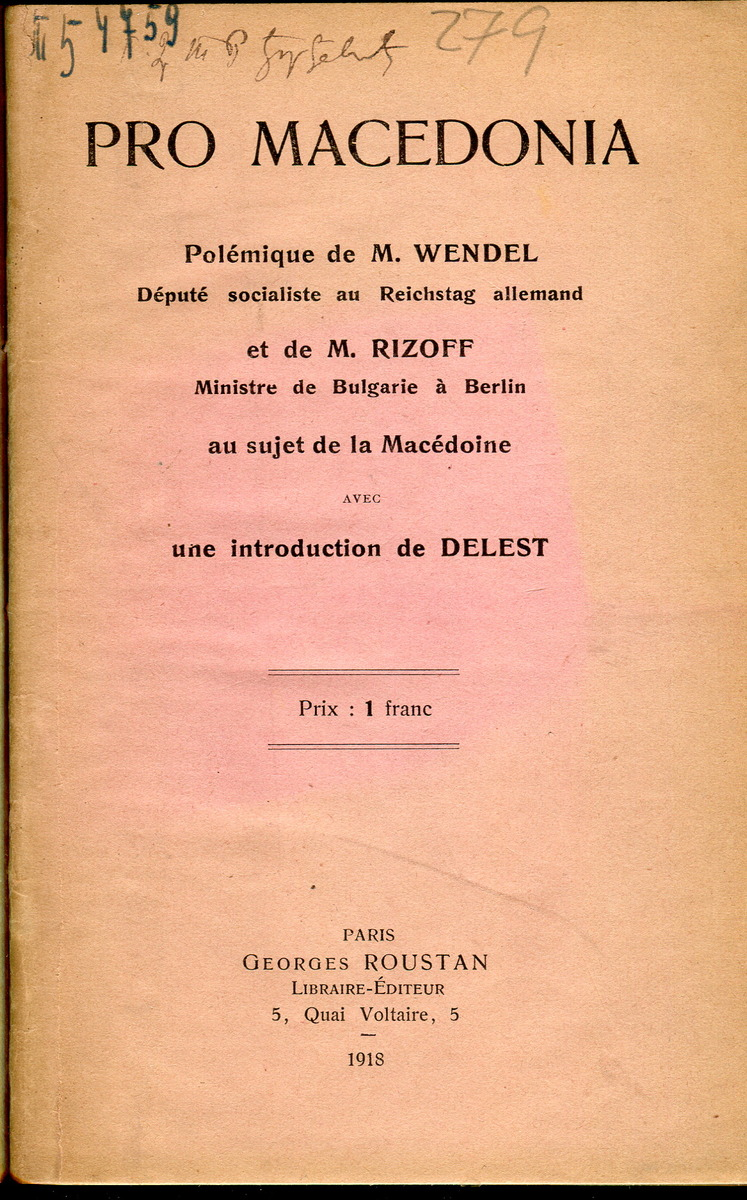 Pro Macedonia polémique de Wendel et de Rizoff au sujet de la Macédoine